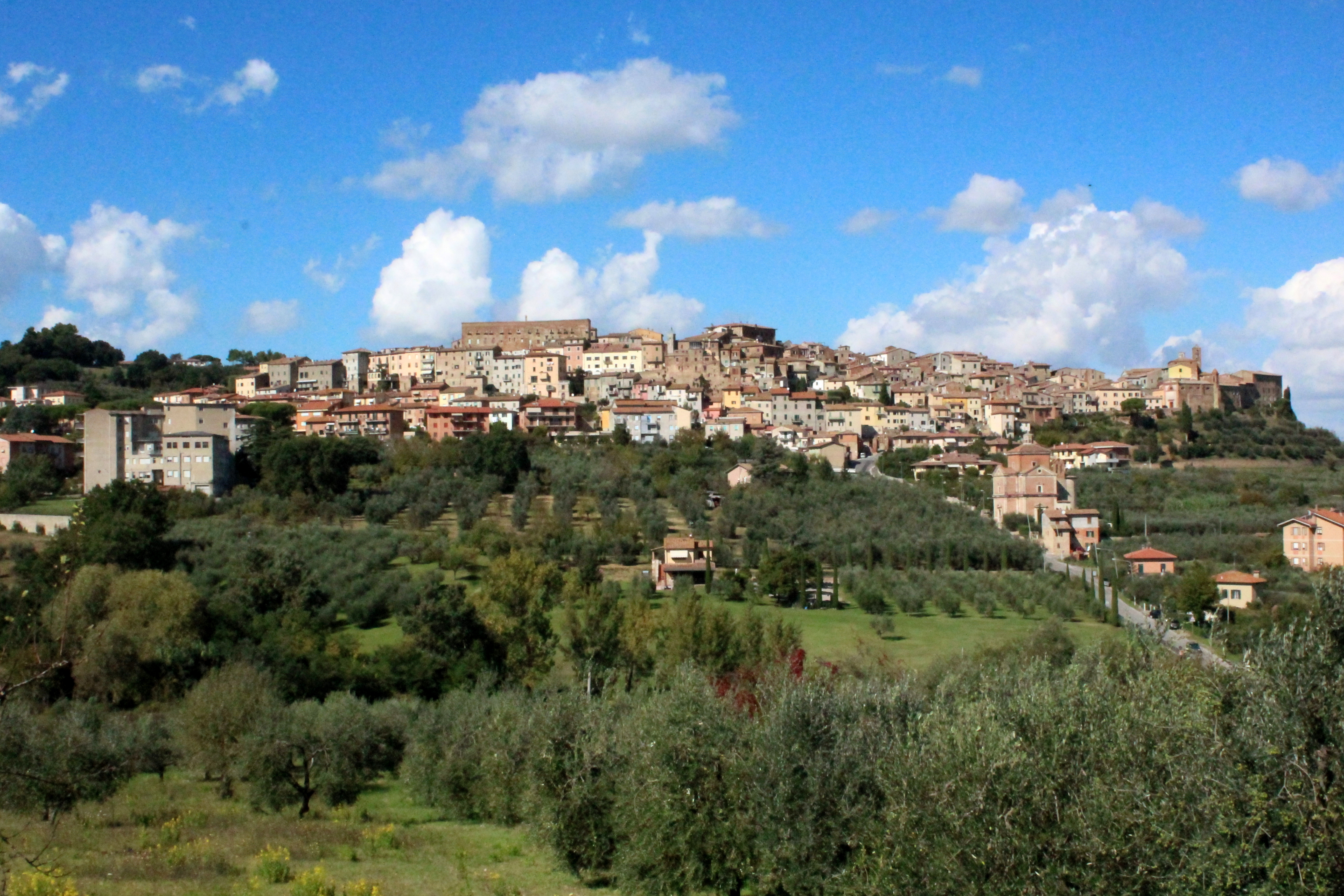 Panorama of Chianciano (Old town of Chianciano Terme, also Chianciano Paese called), Province of Siena, Tuscany, Italy